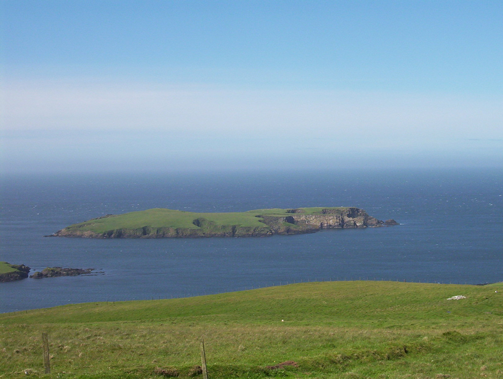 Colsay seen from Ward of Scousburgh